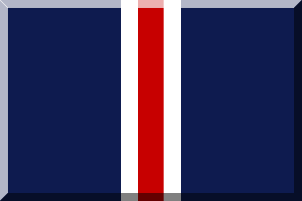 Fantasy football flag for PSG